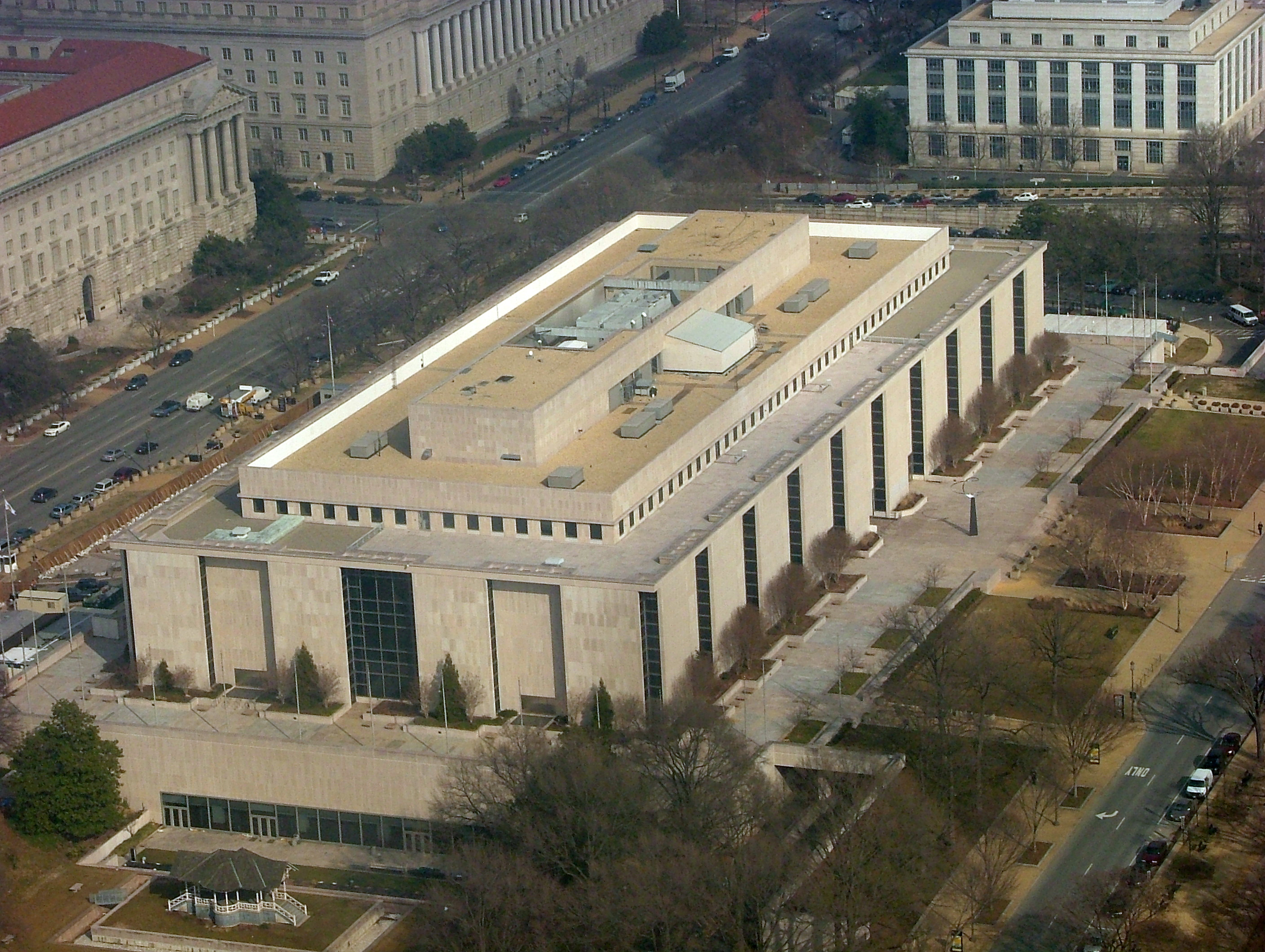 The National Museum of American History is a museum administered by the Smithsonian Institution and located in Washington, D.C., on the National Mall.